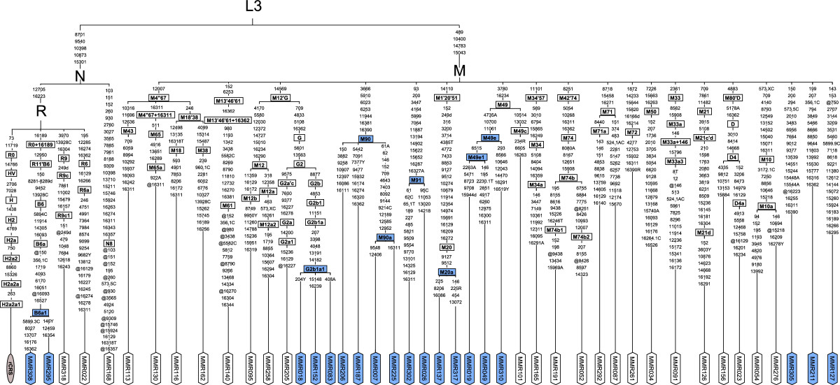 Phylogenetic tree of 44 complete mitochondrial genomes, most of them lying within macrohaplogroup M. The eight newly described haplogroups are shown in blue, and the corresponding samples as well as three new basal M-lineages (MMR127, MMR211 and MMR305) appear in blue, too. Mutations were annotated as differences to the rCRS; @…back mutation; LGM…last glacial maximum.